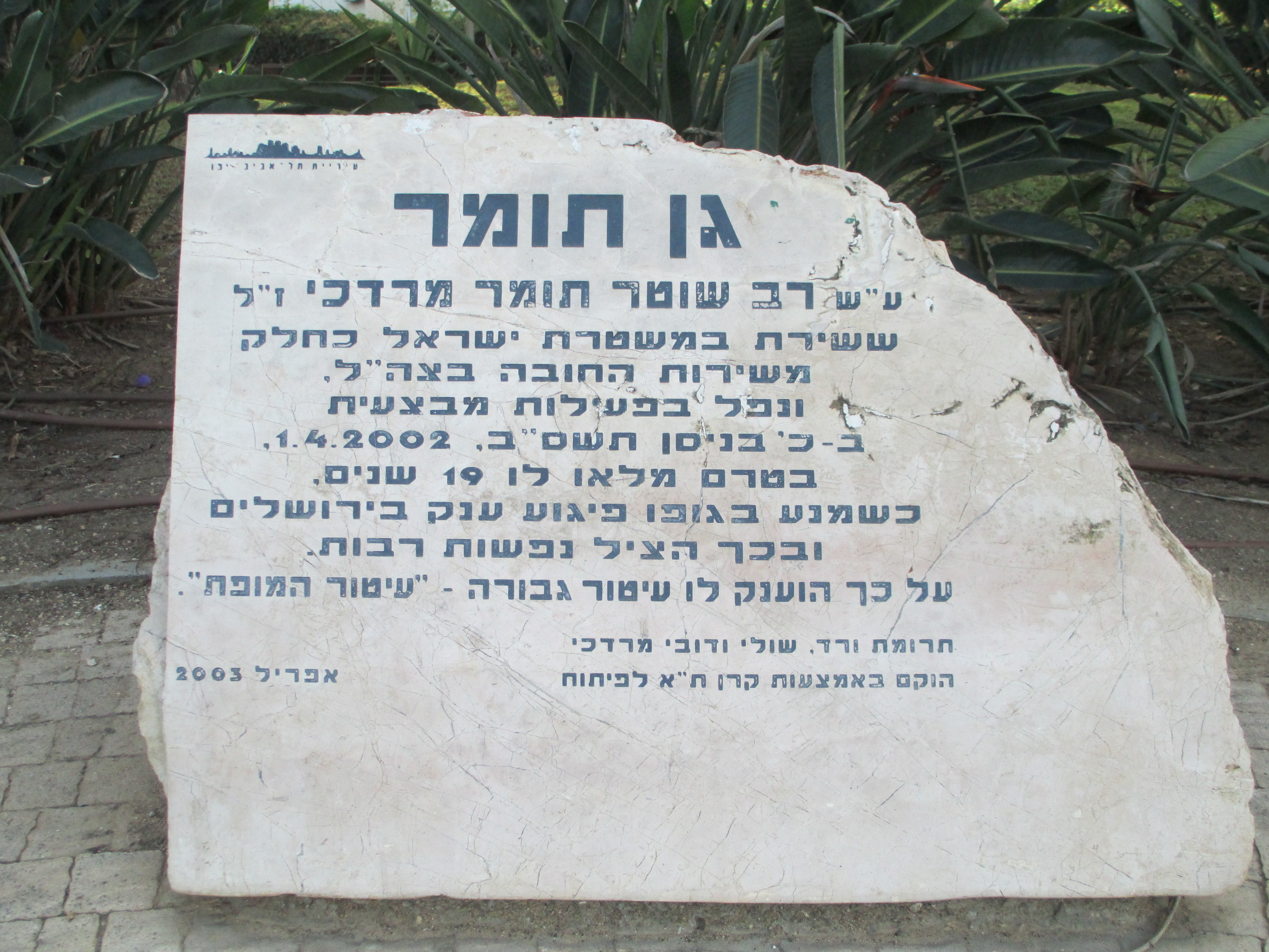 Tomer memorial garden in Tel Aviv